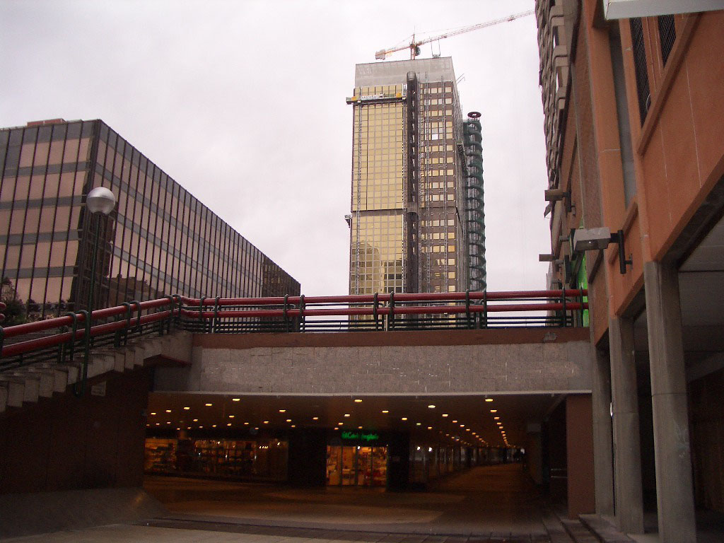 Azca zone and windsor building before burning itself in Madrid ( Spain )